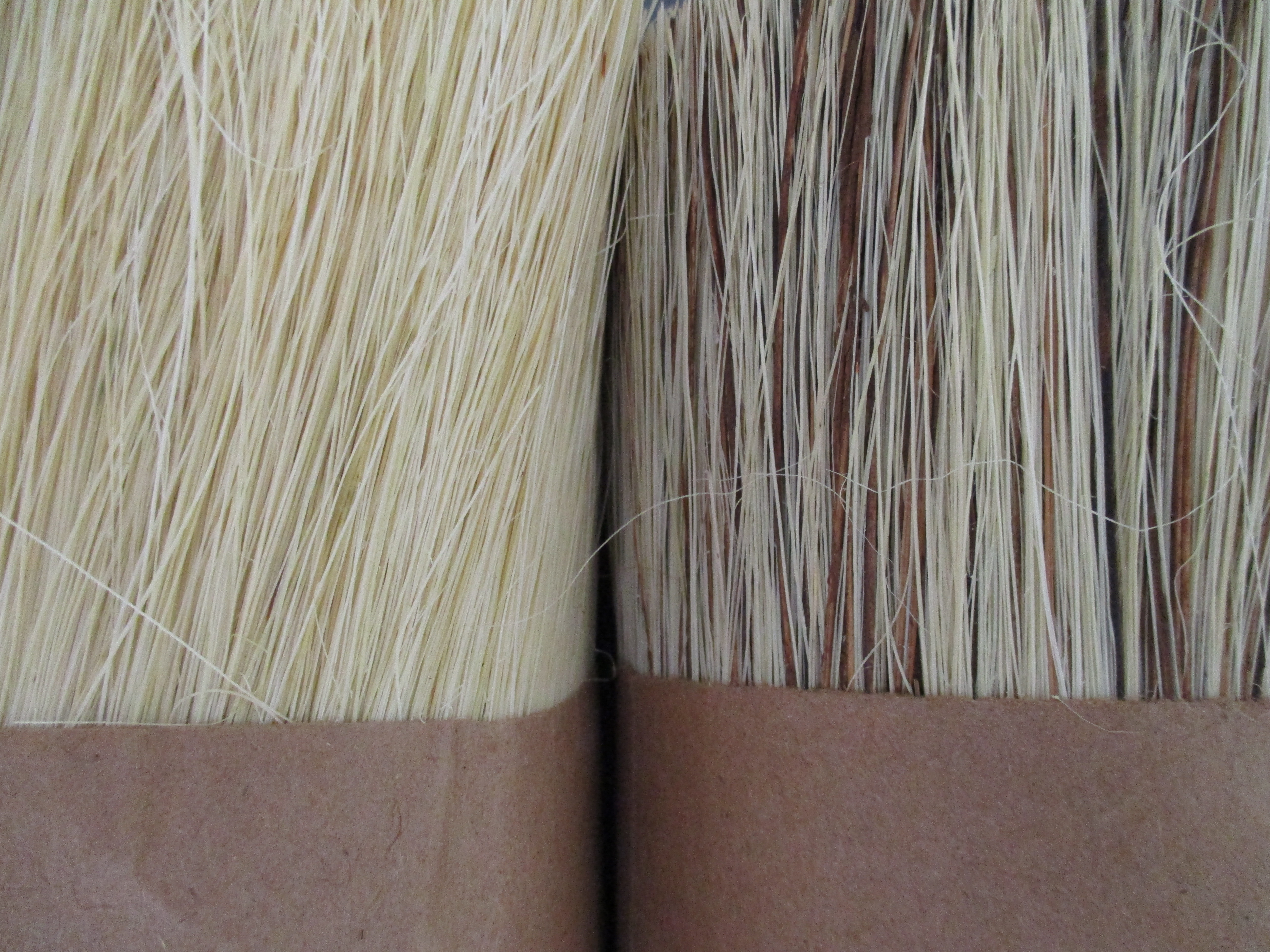 Mexican fibre from the agave lechuguilla and Union fibre (mixture of mexican fibre and bassine from borassus flabellifer) used for brushes, brooms and industrial brushes